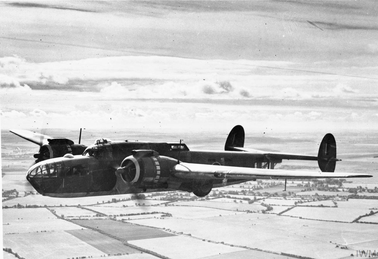 Armstrong Whitworth AW.41 Albemarle ST Mark I series 2, P1475, of No. 511 Squadron RAF based at Lyneham, Wiltshire, in flight. One of six Mark I aircraft modified to ‘Lyneham Standard’ transport configuration and used by 'C' Flight of the Squadron on the UK-Gibraltar-Algiers route.